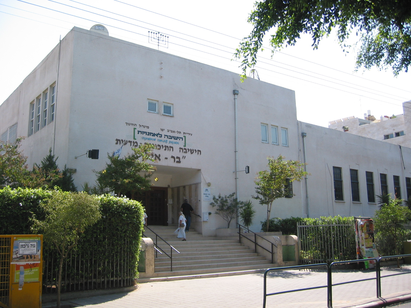 Yeshivat Bar Ilan, Sderot Rotshield, Tel Aviv